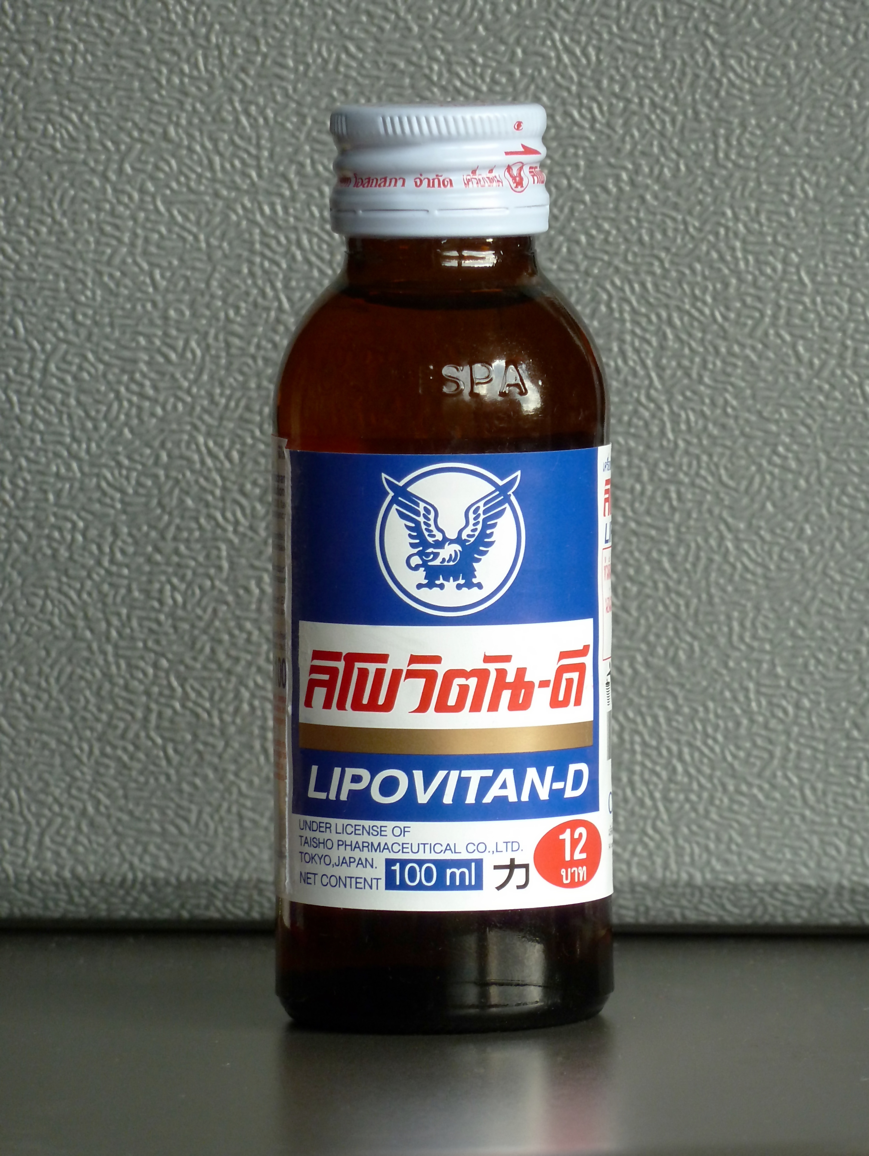 Bottle containing 100 ml of Lipovitan-D energy drink